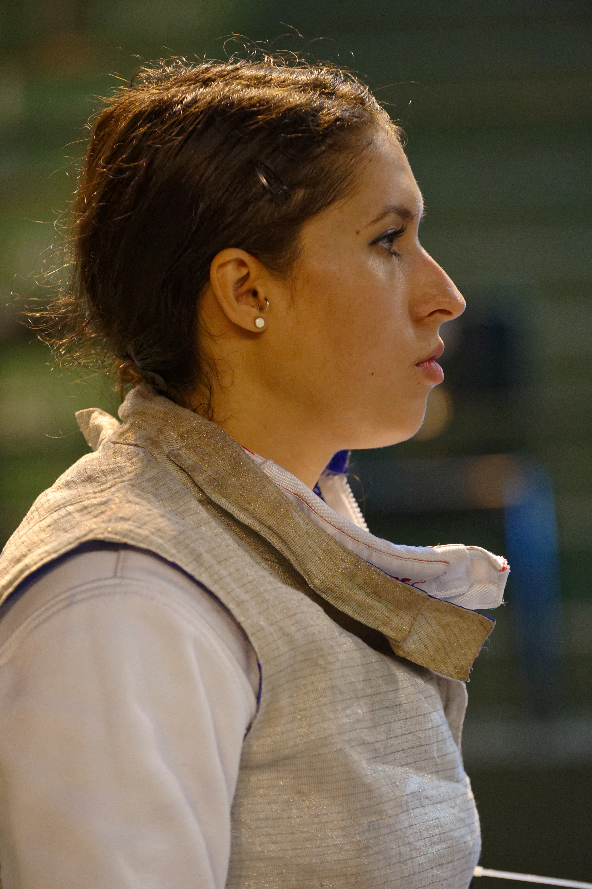 Colombia's Saskia Loretta van Erven Garcia at the pools stage of the 2015 Saint-Maur women's foil World Cup.